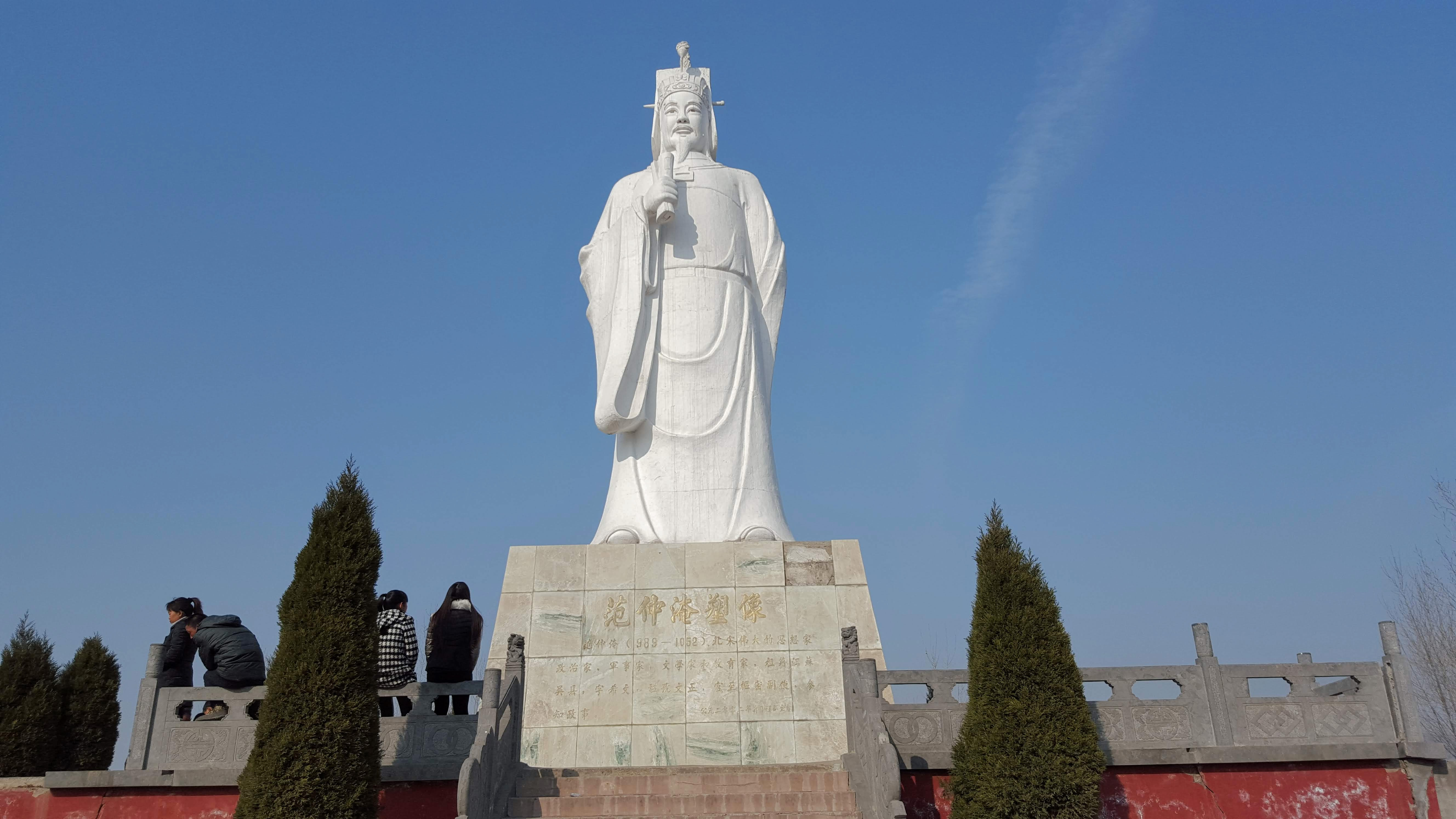 A photo of the Fan Zhongyan statue in the site of Fan Zhongyan's tomb, Yichuan county, Henan, China